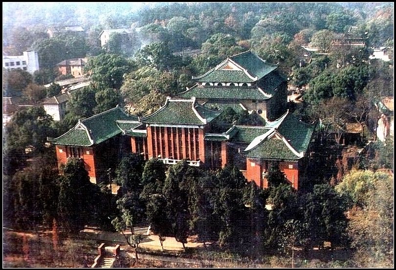 This is the aerial view of Library and Grand Auditorium at Hunan University, which were both designed by Liu Shiying, the founder of modern architectural education in China.